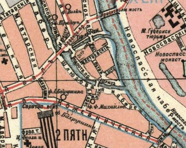 Fragment of the map of Moscow showing the location of the lock on the Vodootwodnyj channel